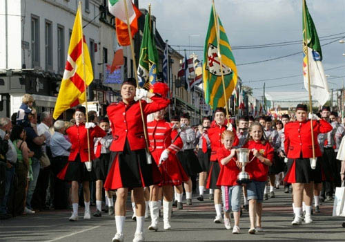 This is a photo of the Sunday morning march at the Fleadh 2008 in Tullamore, Ireland. Photo taken by myself.